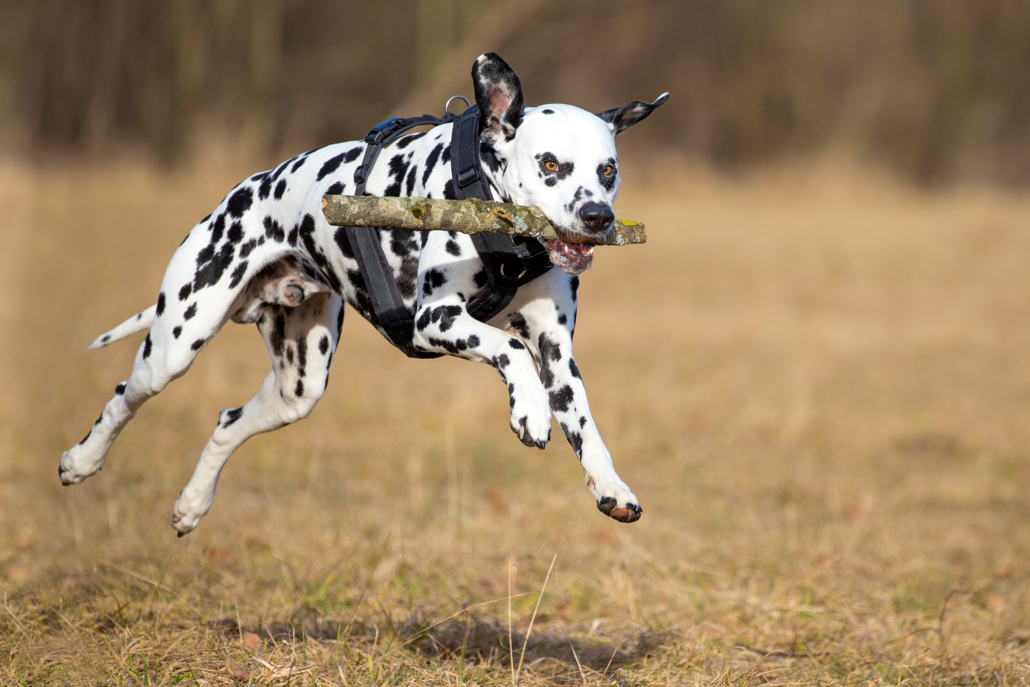 Dalmatian fetching a stick